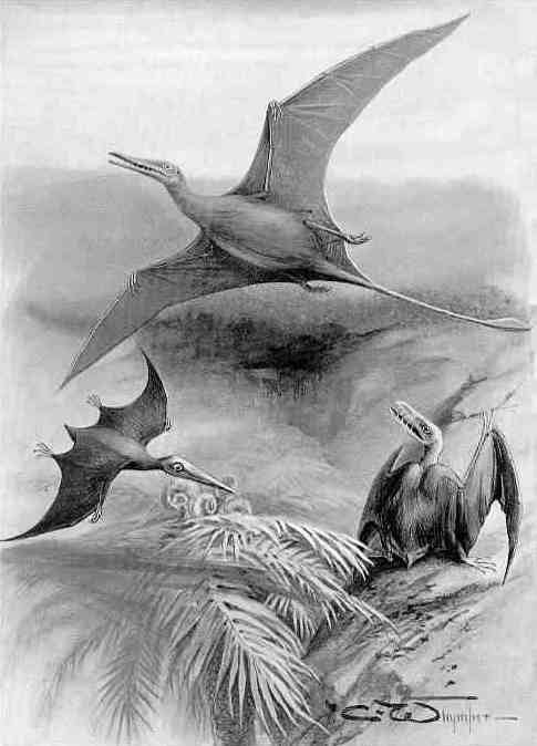 Rhamphorhynchus above, with Pterodactylus and Scaphognathus below (from Nebula to Man, 1905, England)